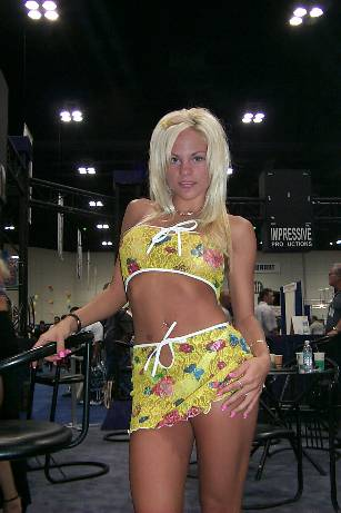 Shay Sweet Sin City Party